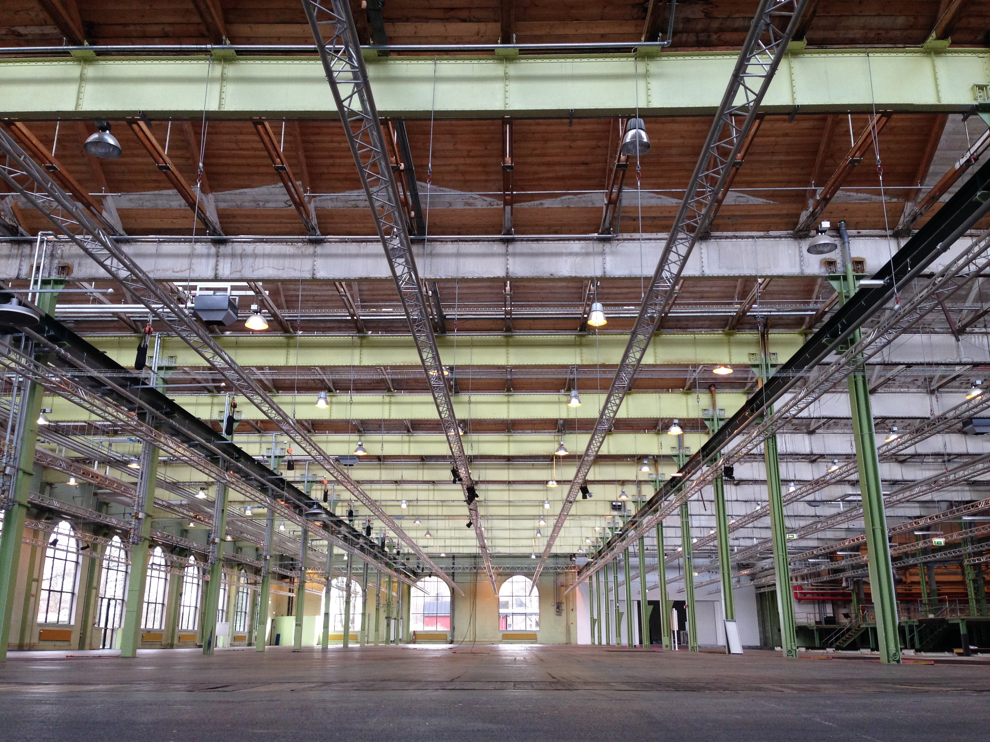 Workshop for locomotives, Dybbølsbro, Sydhavnen, Denmark